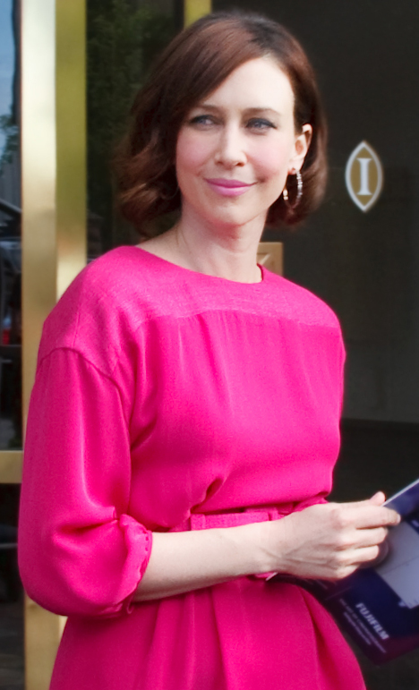 Vera Farmiga at the 2009 Toronto International Film Festival.